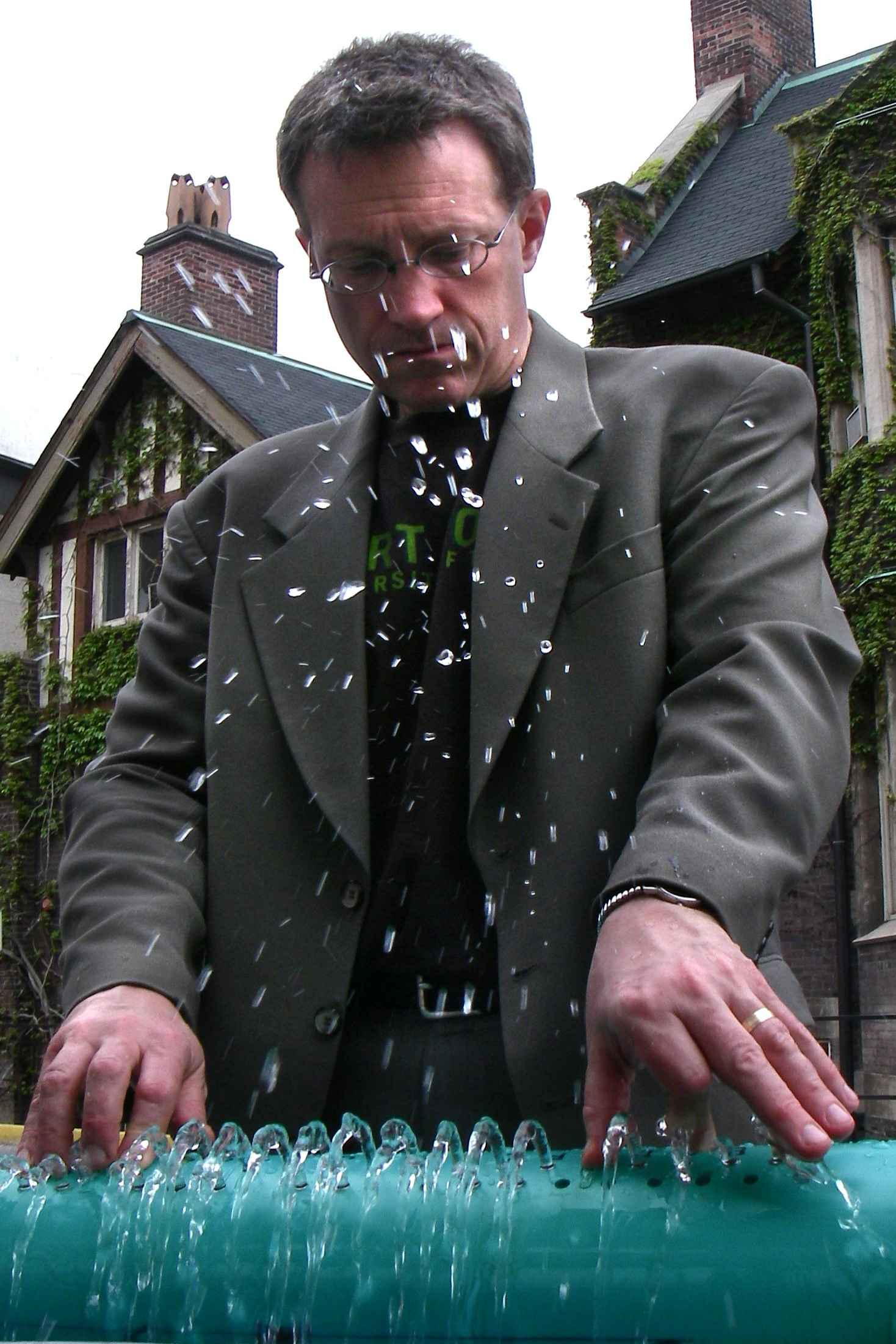 Ethnomusicologist Gage Averill, Dean of University of Toronto's Faculty of Music, playing hydraulophone at the Faculty of Music.